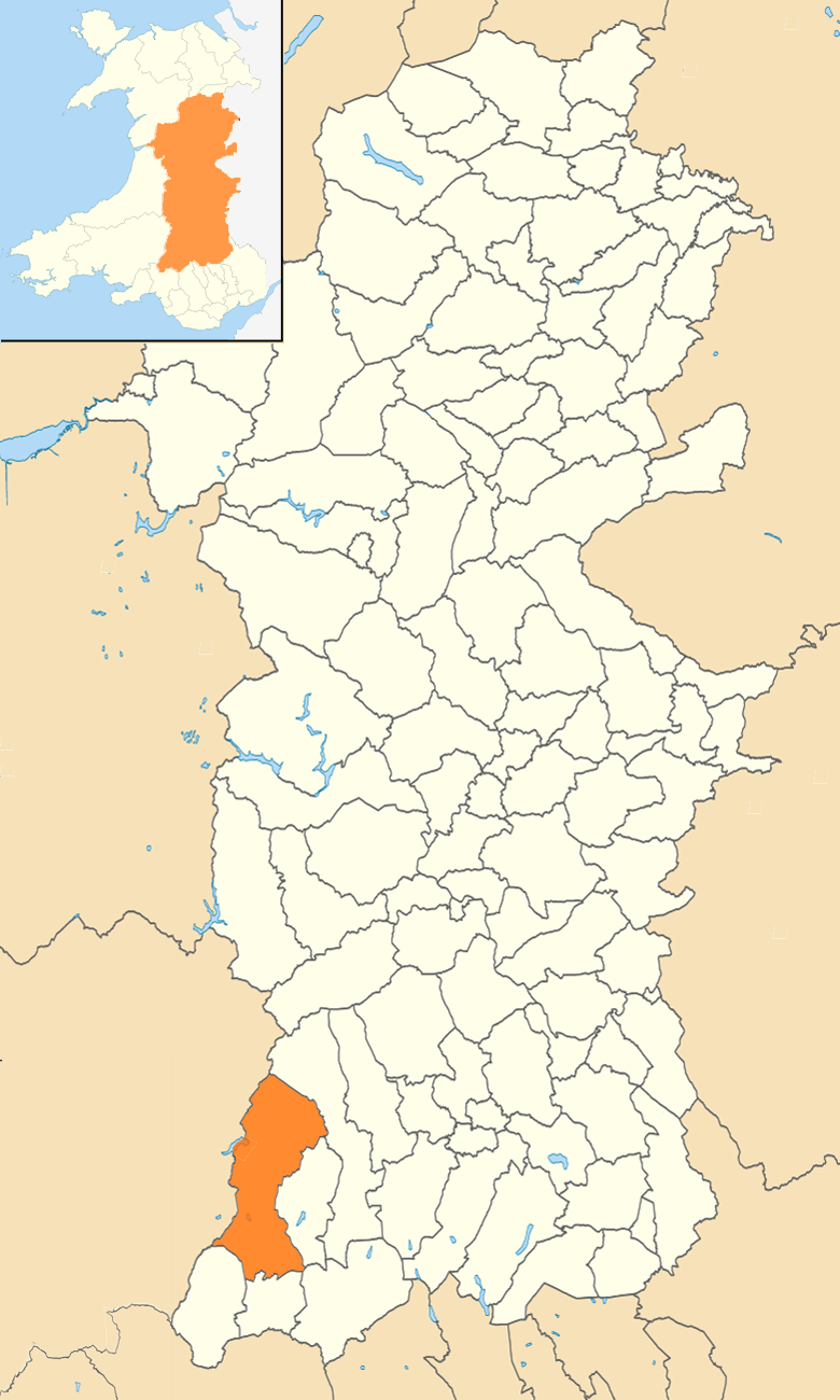 Location map of the community of Llywel in Powys, mid Wales